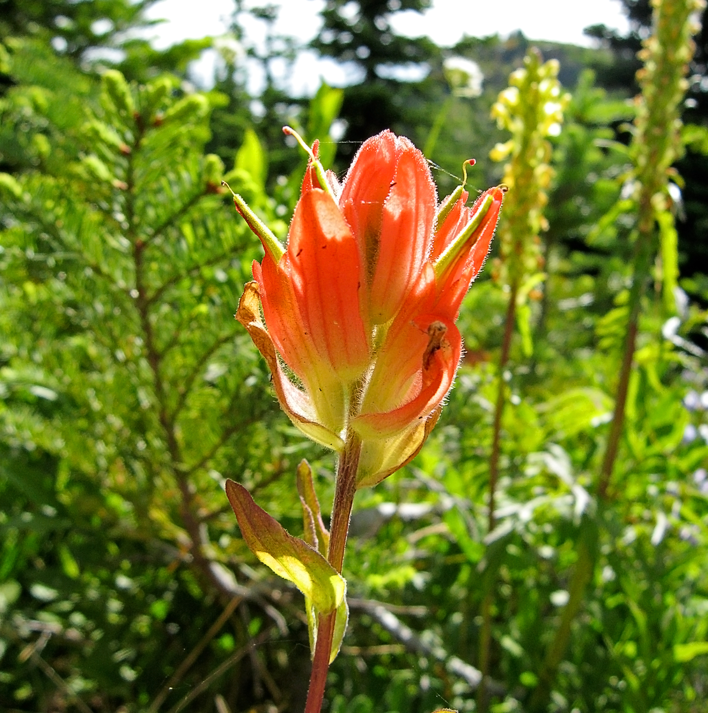 Along with the zillions of lupines, asters, and what not, there were hordes of paintbrush flowers on the trail from Corral Pass to Noble Knob. I had always called all the varieties "Indian Paintbrush", but my main field guide just calls them Paintbrushes. This one is a Common Red Paintbrush, which is the most common paintbrush in the Pacific Northwest. According to my book, the genus Castilleja is fairly complex and variable, as is the species C. miniata. Apparently the species C. miniata includes C. hyetophila and C. chrymactis, which occur at lower elevations near the coast. How a species can include two other species I'm not sure. There are seashore paintbrushes and alpine paintbrushes, cliff paintbrushes, and quite a few other varieties. The "brush" part of the flower is apparently not the flower itself, but leafy bracts, while the flowers are greenish and fairly well hidden inside. The plants of the paintbrush genus Castilleja are "partially parasitic on the roots of other plants", making them very hard to transplant. The species names "miniata", of the Common Red Paintbrush, is not about size but a reference to the "scarlet-red colour 'minium'."